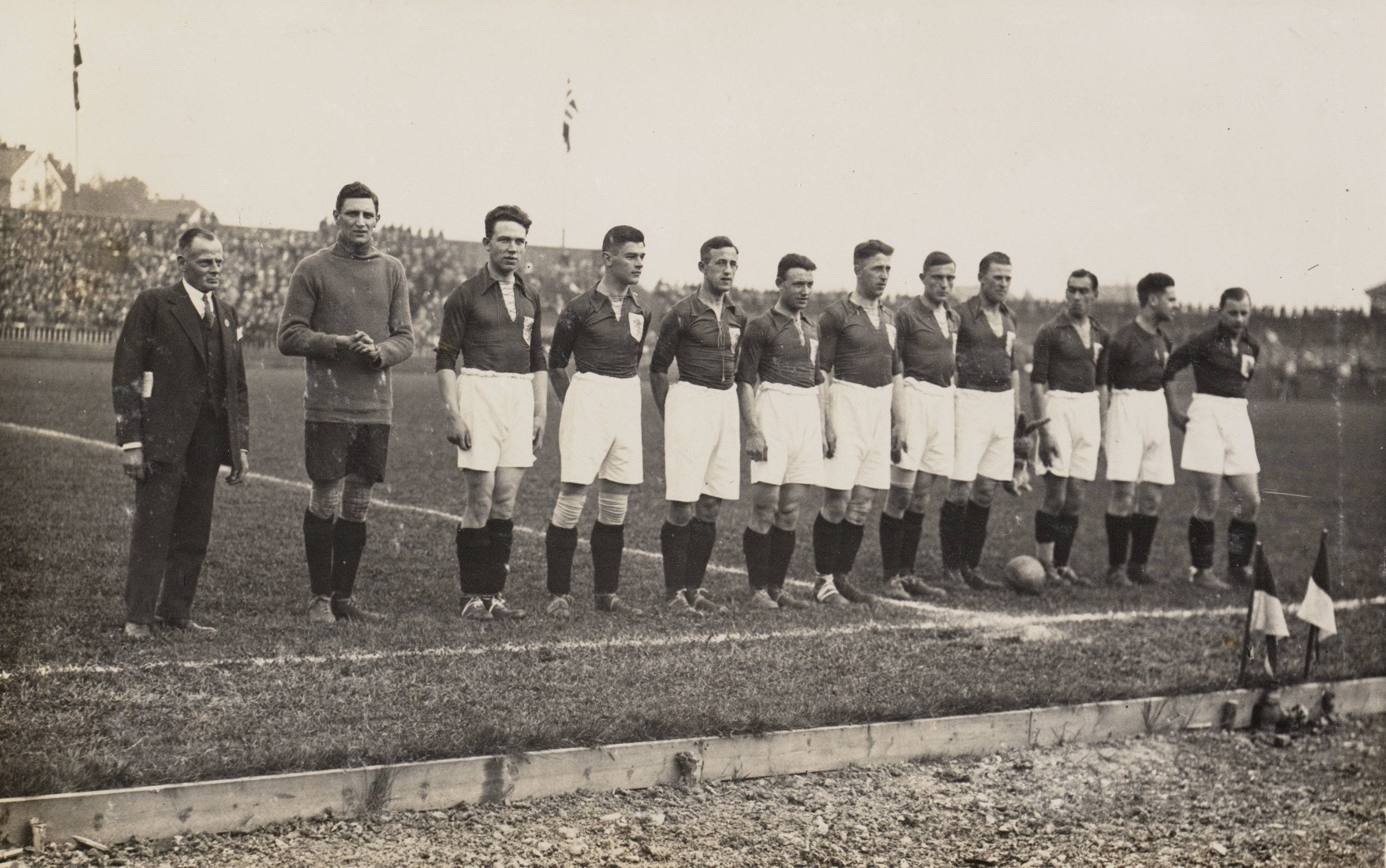 Het Nederlands elftal voor de interland tegen Noorwegen. Vanaf links: official Boeljon, Gejus van der Meulen, Maarten Grobbe, Felix Smeets, Koos van der Wildt, Kees van der Zalm, Gep Landaal, Cor Kools, Huib de Leeuw, Frans Hombörg, Dolf van Kol en Wim Tap. Noorwegen - Nederland (4-4), gespeeld op 12 juni 1929 in Oslo. Opsteling: Gejus van der Meulen (HFC), Kees van der Zalm (VUC), Dolf van Kol (Ajax, aanvoerder), Huib de Leeuw (Willem II), Maarten Grobbe (Excelsior), Koos van der Wildt (VUC), Gep Landaal (AGOVV), Felix Smeets (HBS), Wim Tap (ADO), Cor Kools (NAC) en Frans Hombörg.